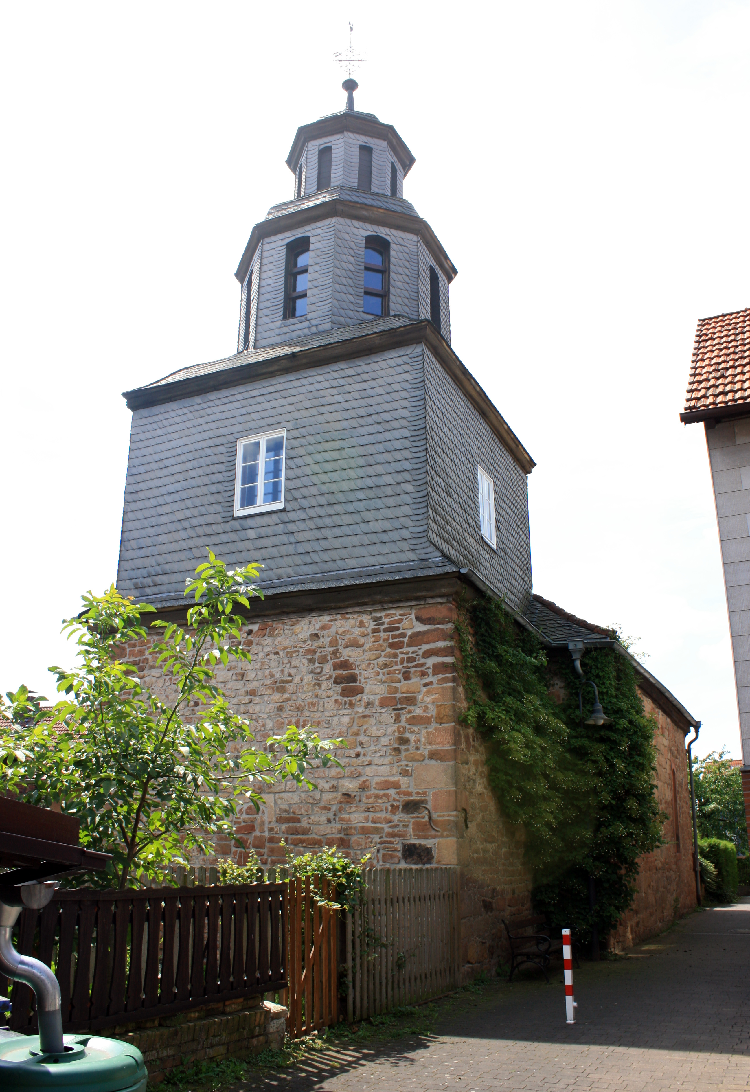 The former church in Weimar (Lahn), Niederweimar